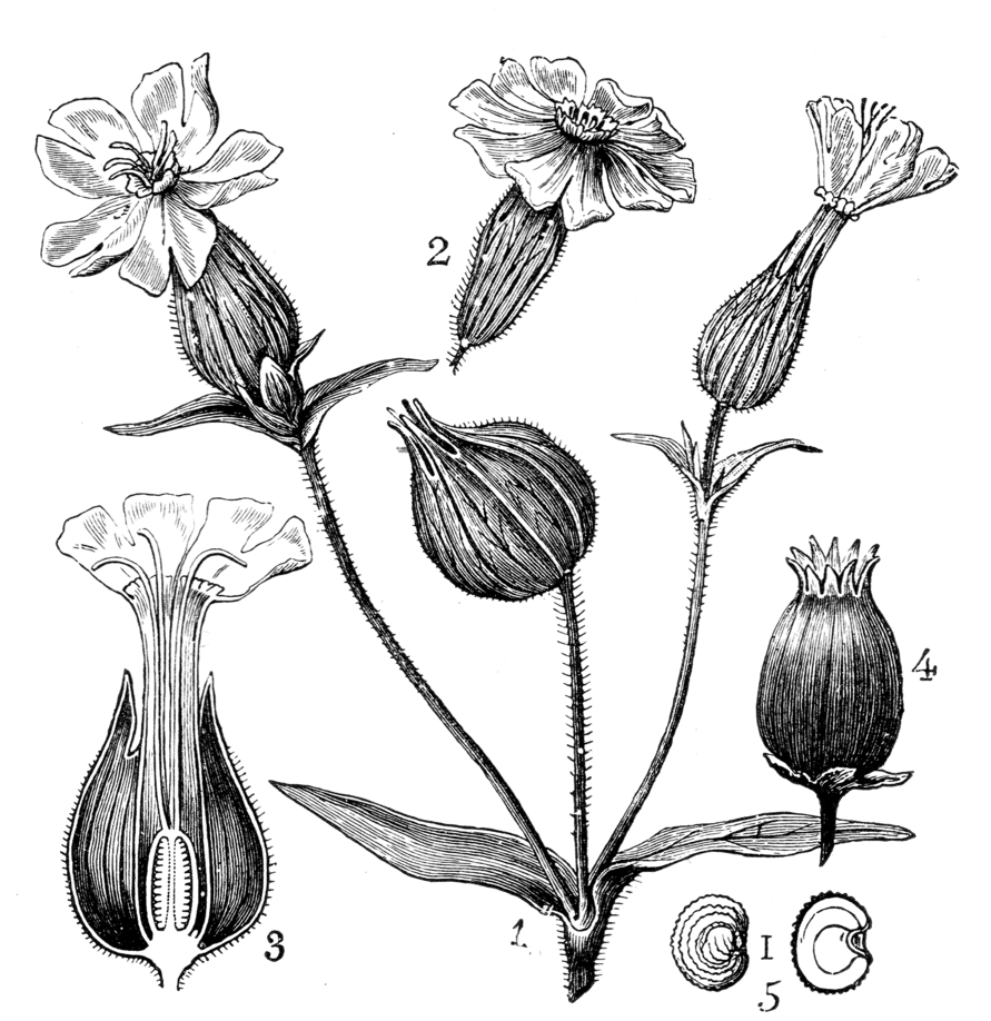 Drawing of Silene latifolia; 1. part of inflorescence/Blütenzweig, 2 male flower/männliche Blüte, 3 female flower/weibliche blüte, 4 fruit/Frucht, 5 seed/Same.